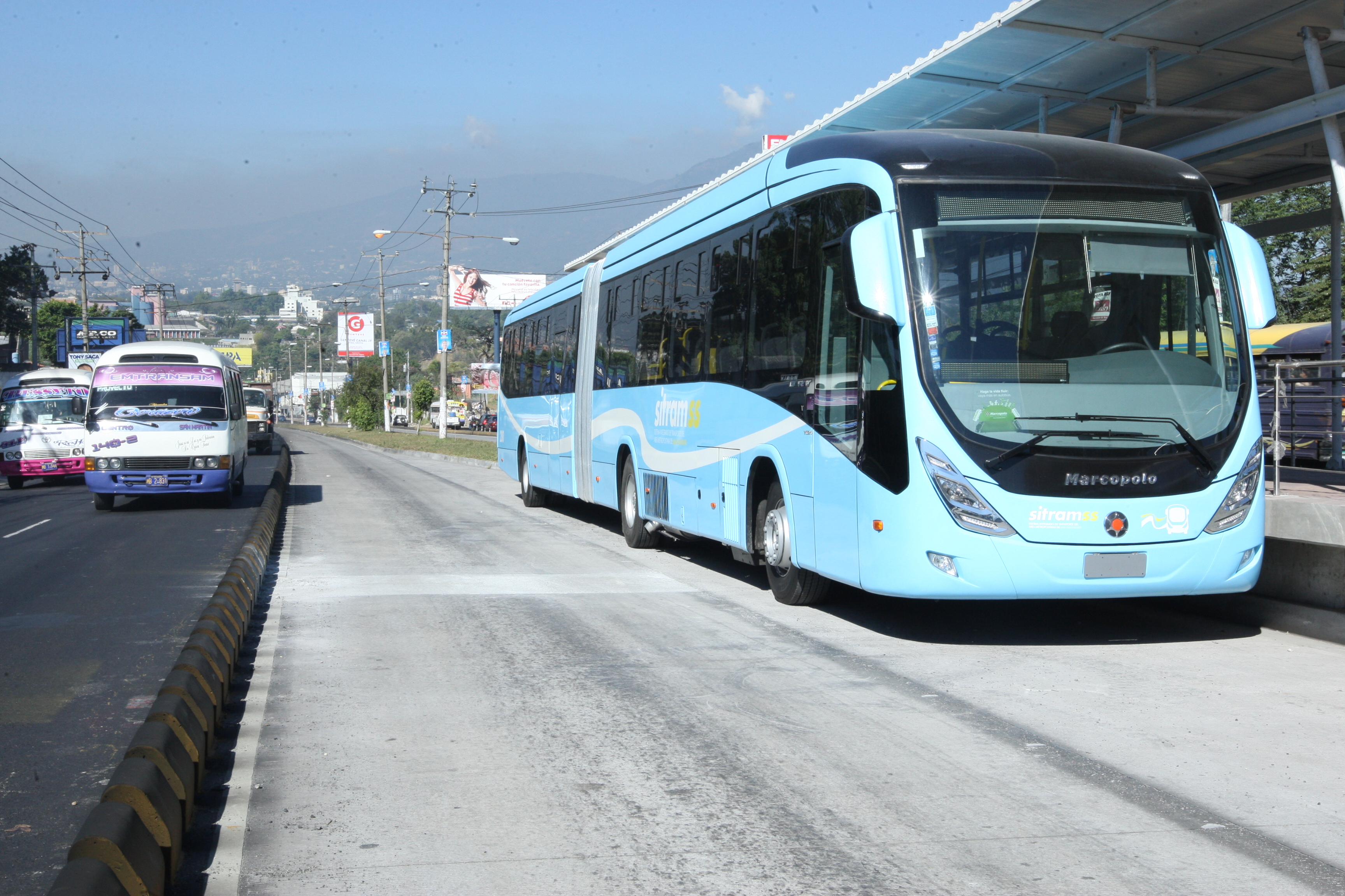 Sitramss San Salvador